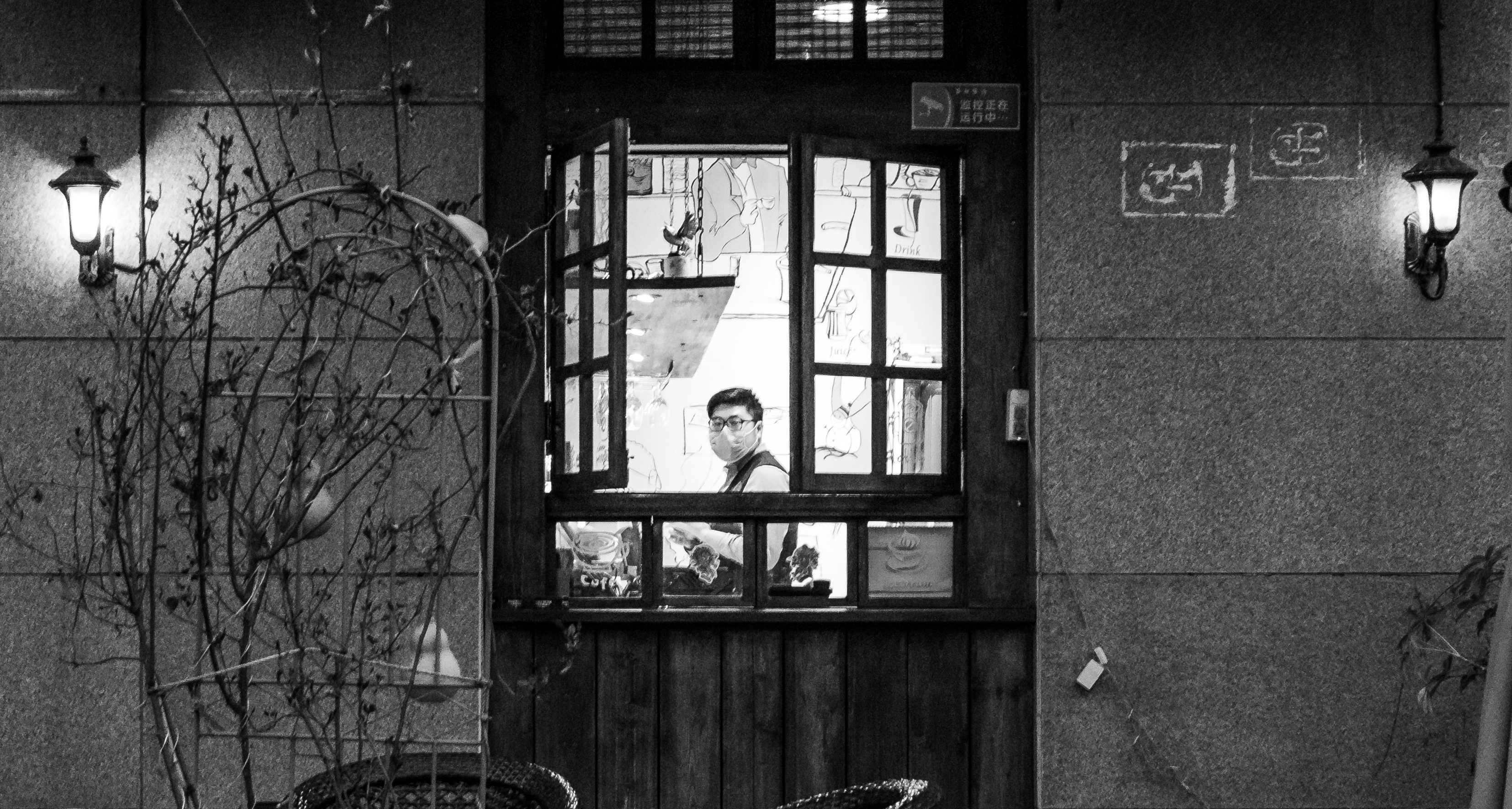 A barista wearing mask in Qingdao. This file has been extracted from another file: Barista (49671976662).jpg